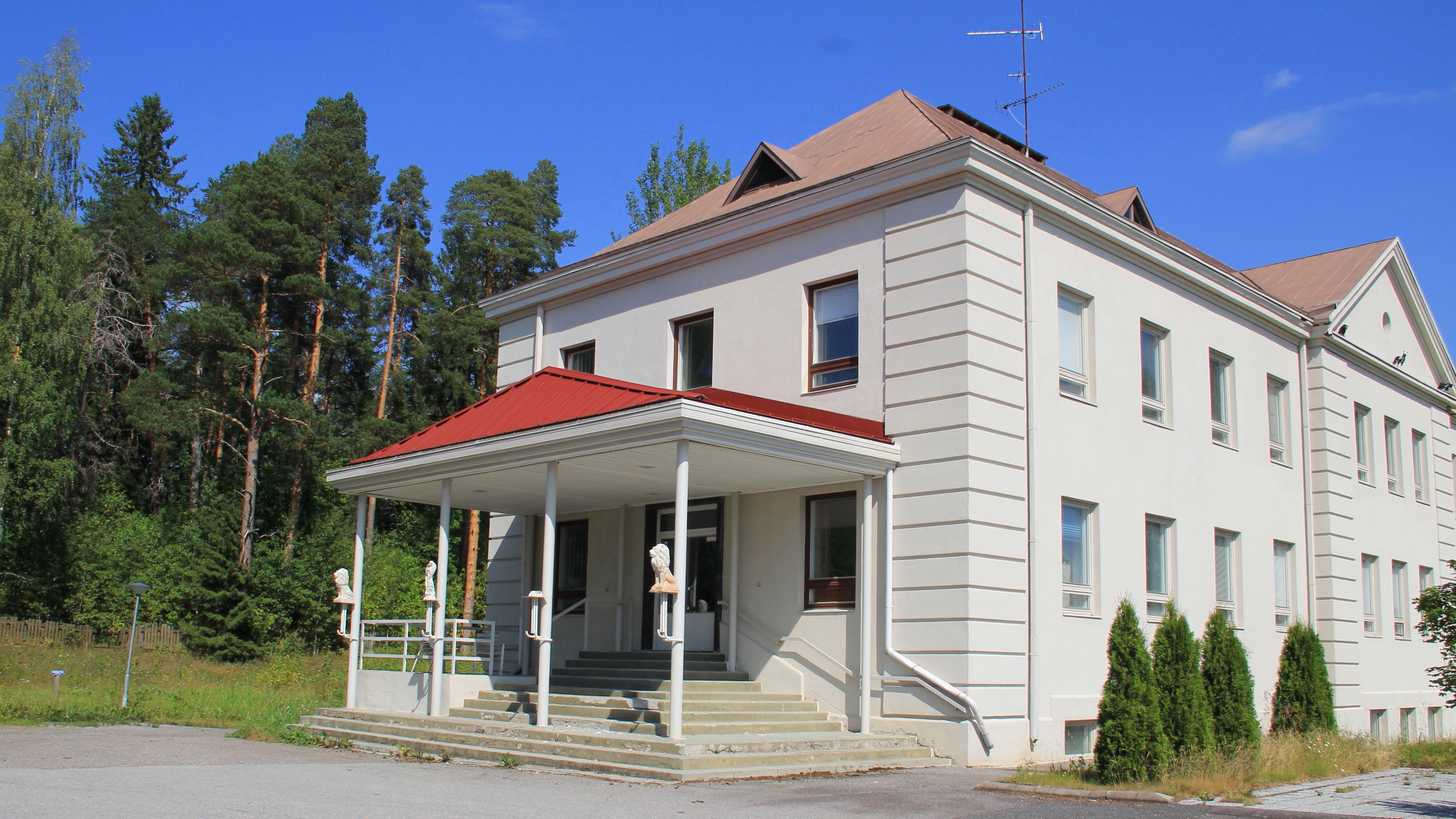 Koljonvirta retirement home, Iisalmi, Finland. - Koljonvirta retirement home was designed by finnish architect Axel Mörne (1886-1935) and was completed in 1924. After serving as retirement home it was used as a mental hospital.